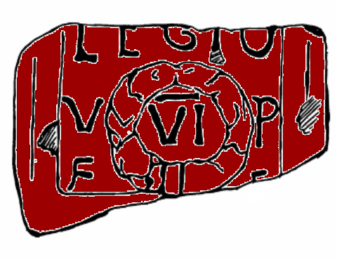 Building-stone, Material Red sandstone, Legio VI Victrix, at Bowness. 1857 given by Sir George Clerk to the National Museum of Antiquities, Edinburgh, where it now is.